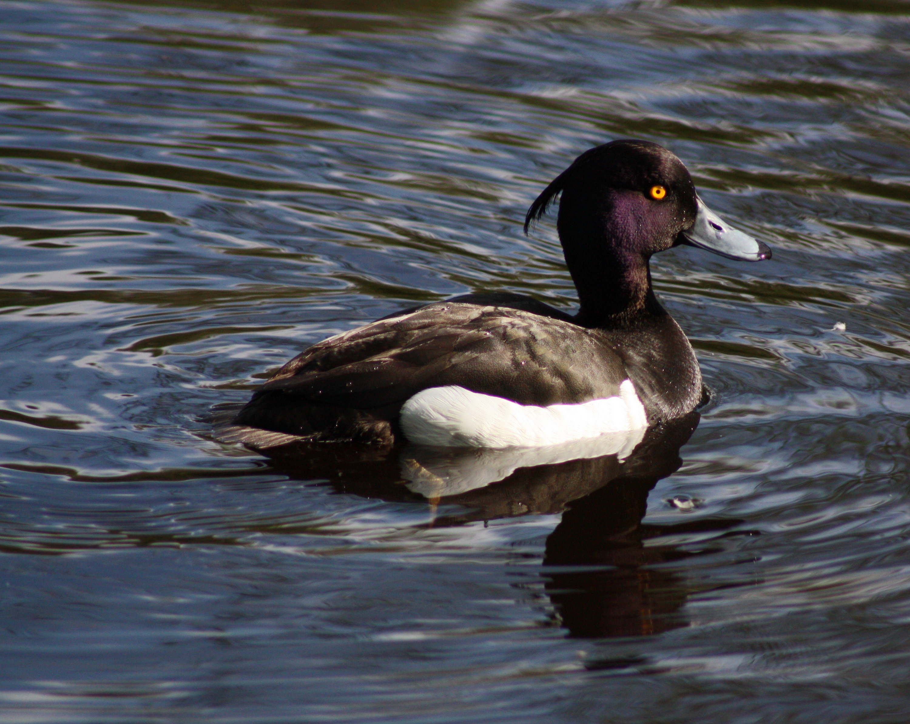 A Tufted duck (Aythya fuligula) in the Hupisaaret Park in Oulu.